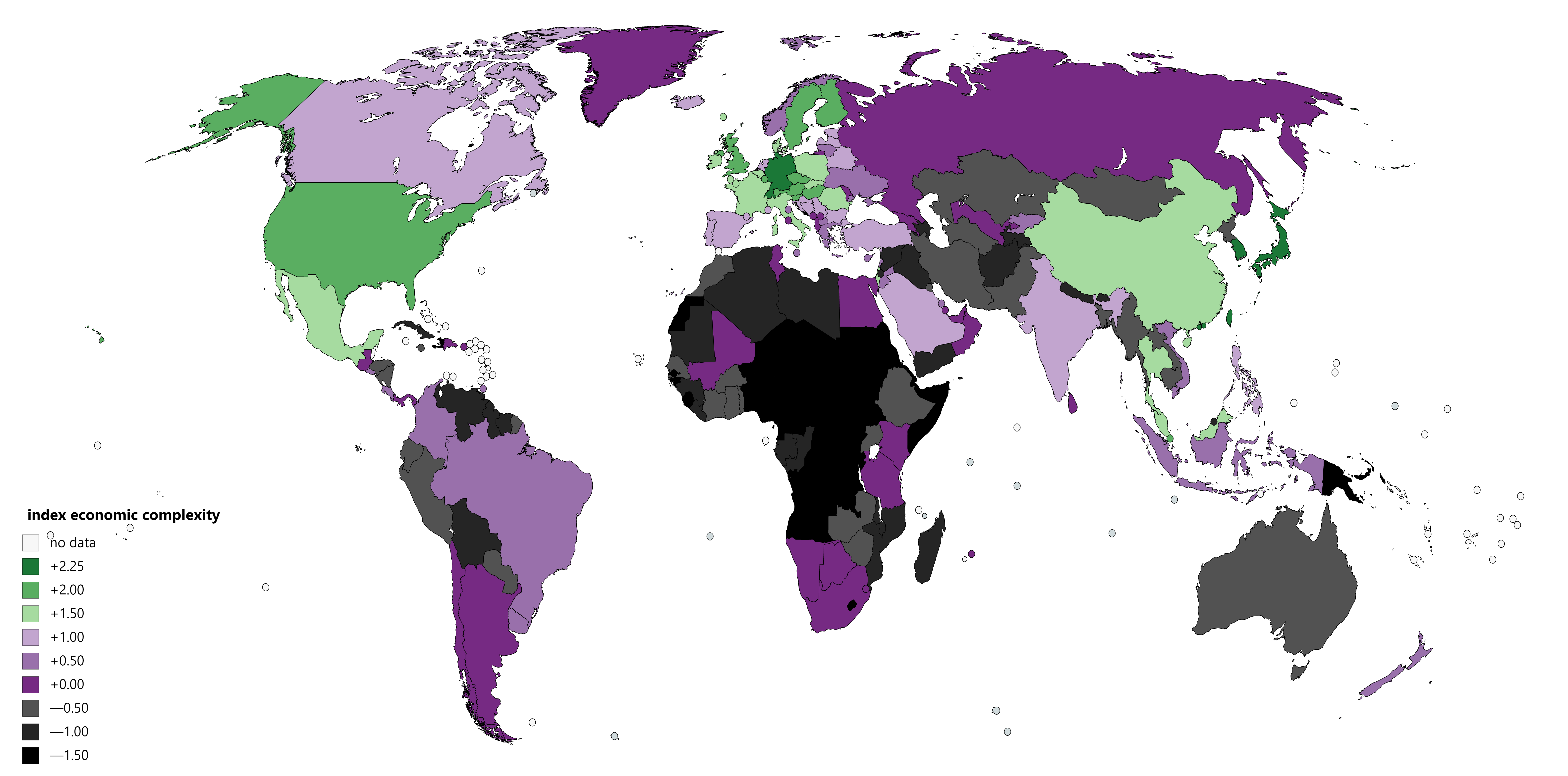 how difficult it is for a nation to produce the products it sells to other countries